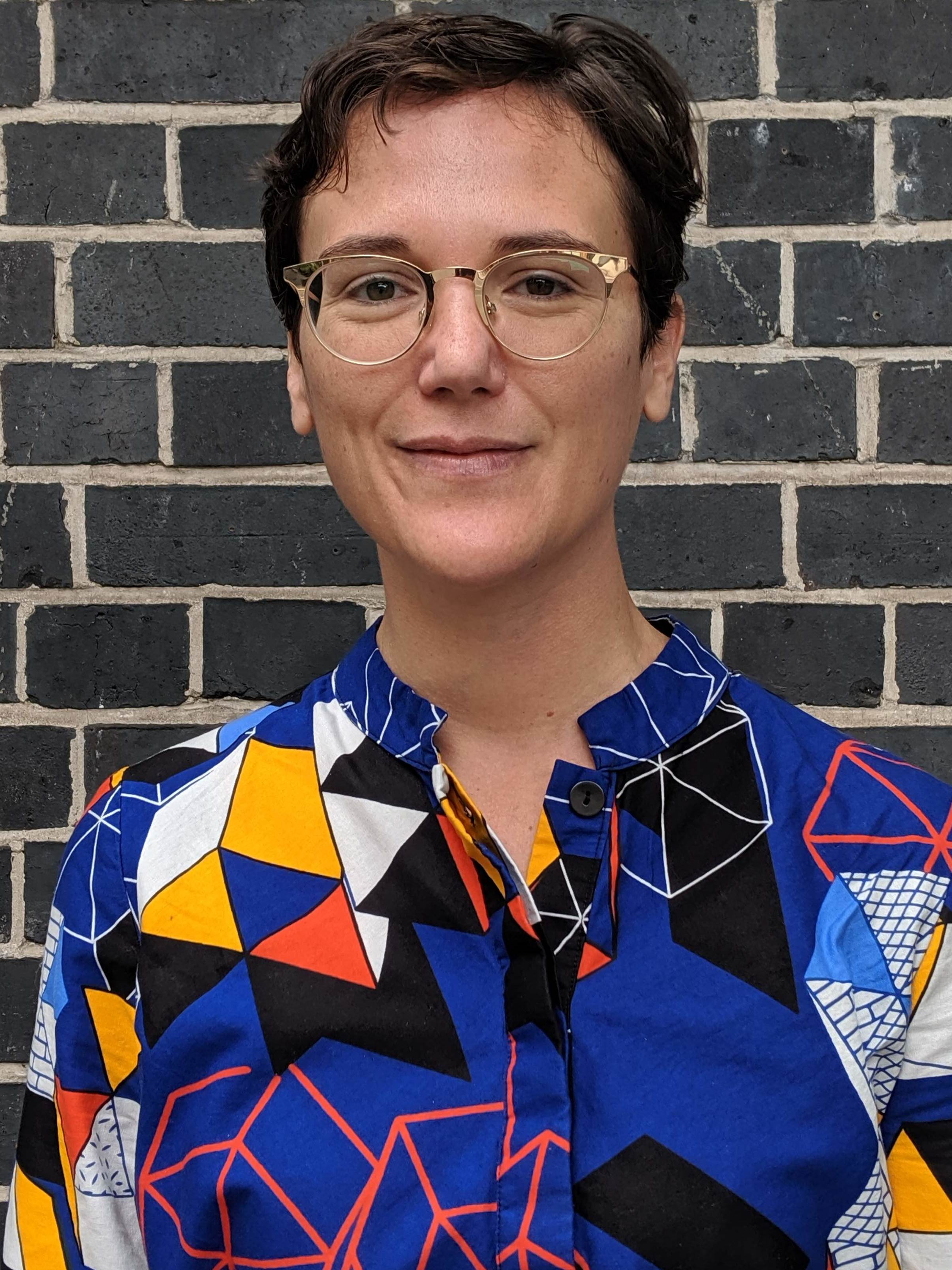 Erin L. Thompson, the art historian and lawyer, in London, September 2019.